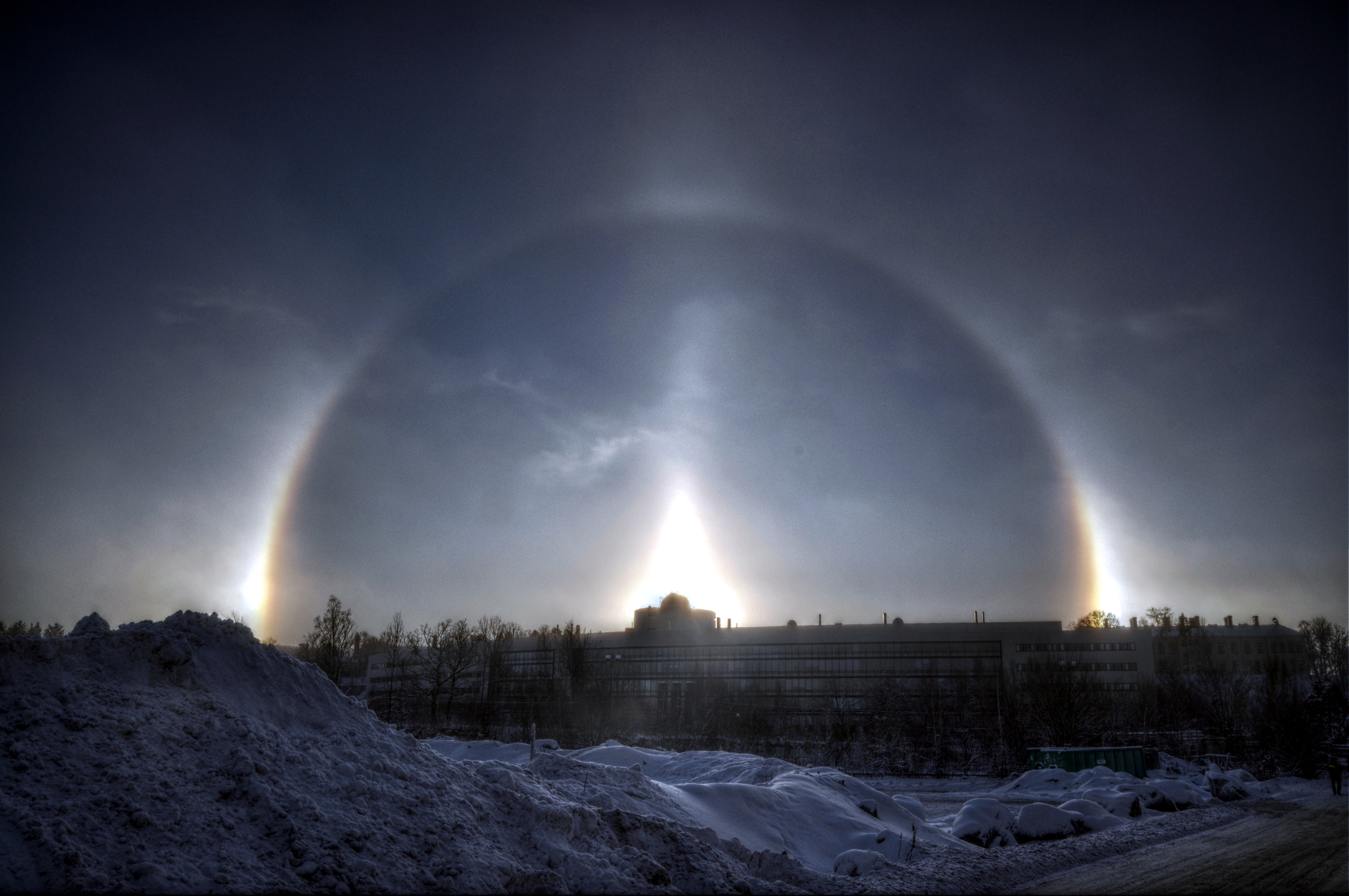 Halo over AlbaNova, HDR